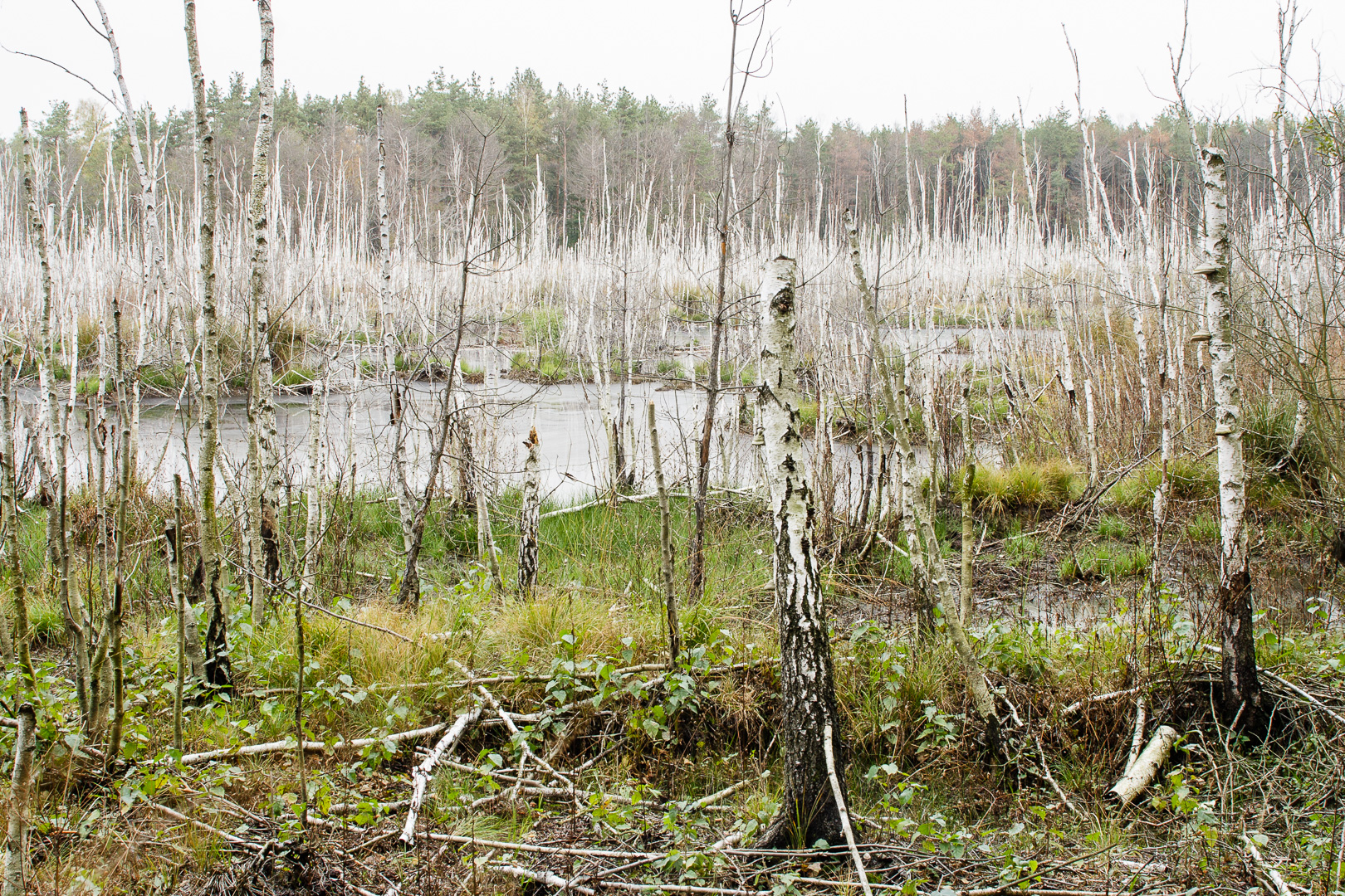 The peat bog "Biały Ług" west of Góraszka. Aleksandrów, Wawer, Warsaw, Poland. This is a photography of protected area with CRFOP ID PL.ZIPOP.1393.PK.72